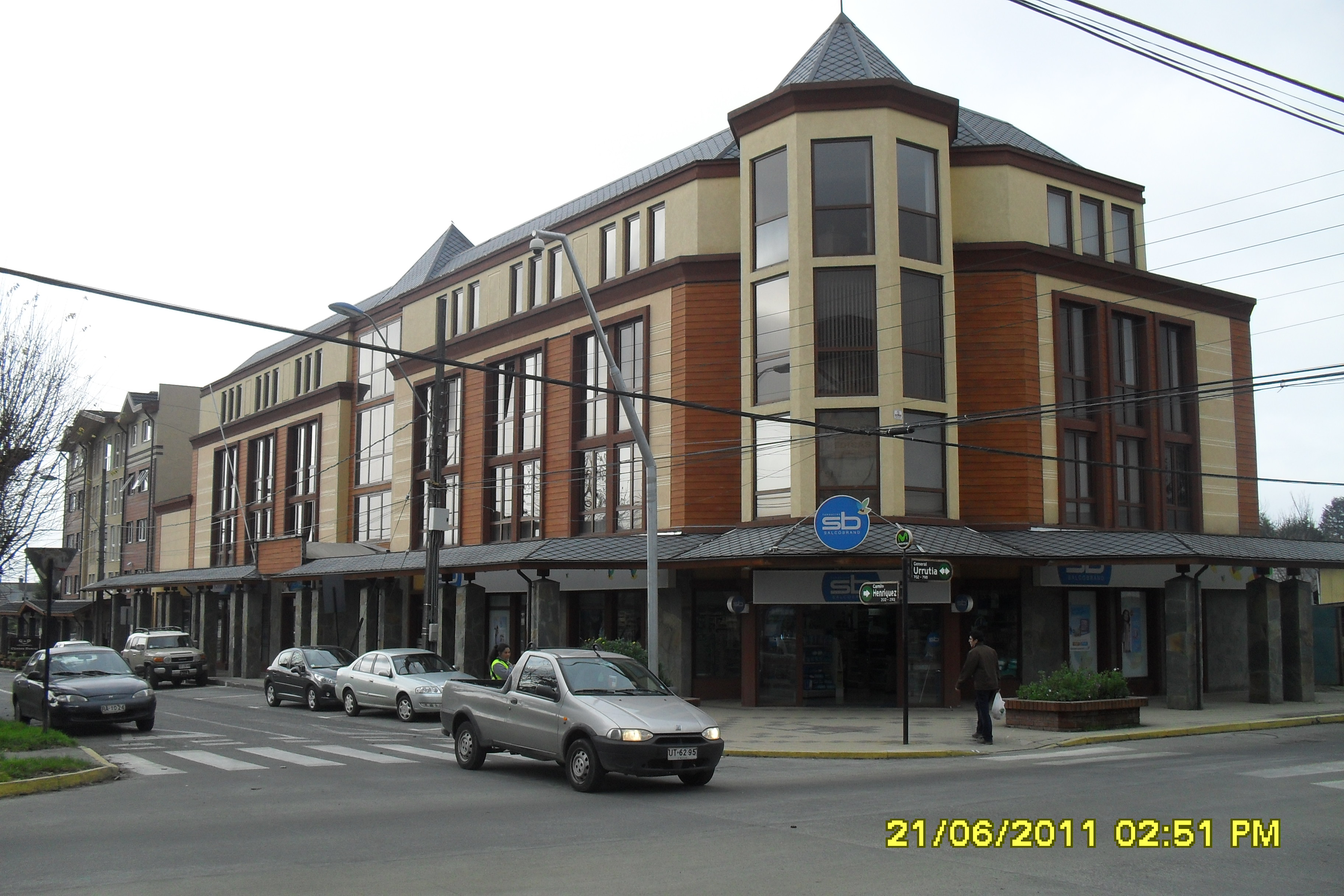 Edificios de Villarrica